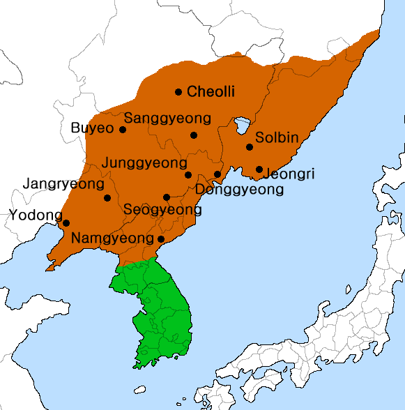 The Kingdom of Balhae at its height under King Dae Yi-jin rule.